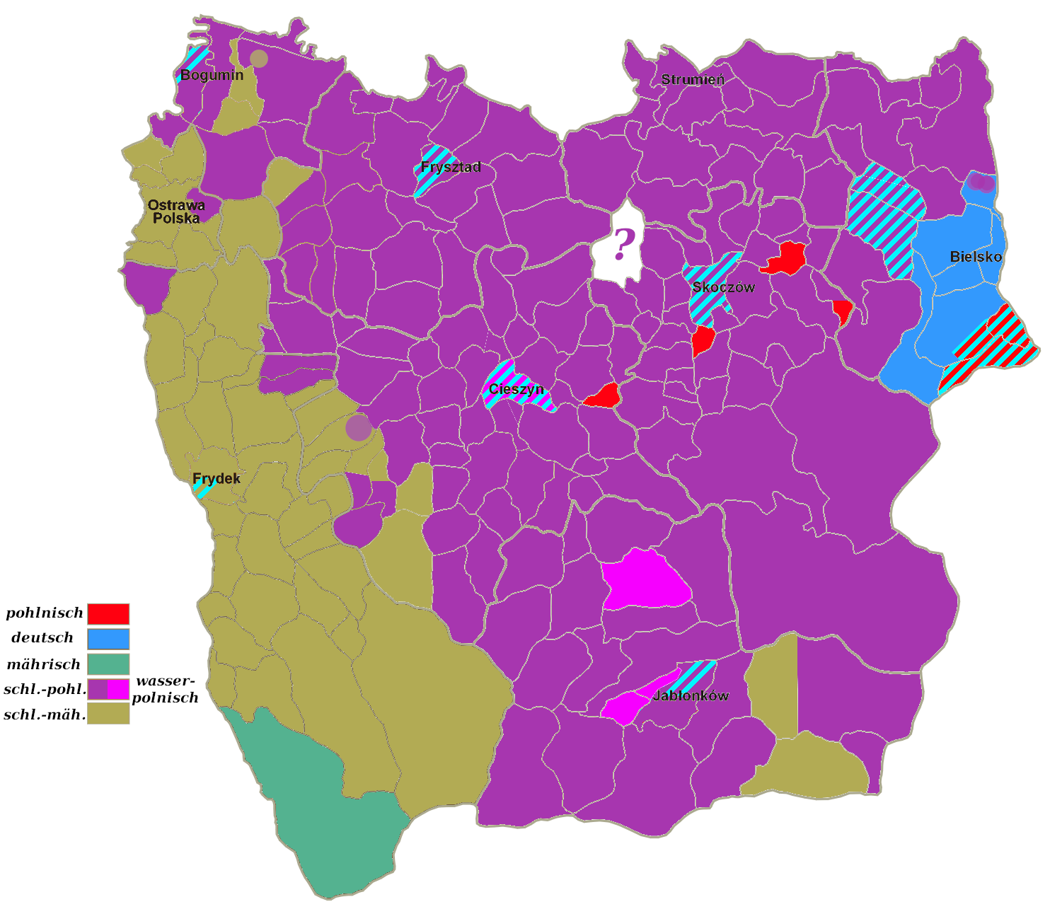 Language in the places of the Teschen Silesia as described by Reginald Kneiffl in the year 1804. [2]